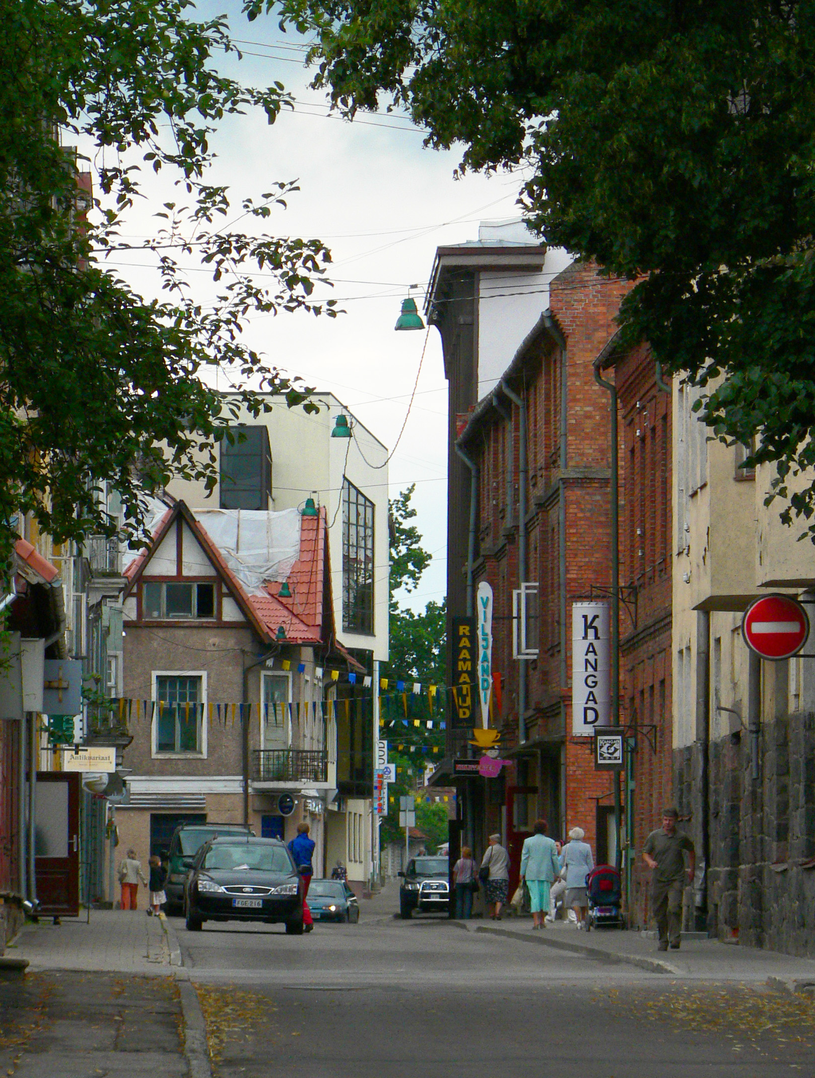 A street in Viljandi.